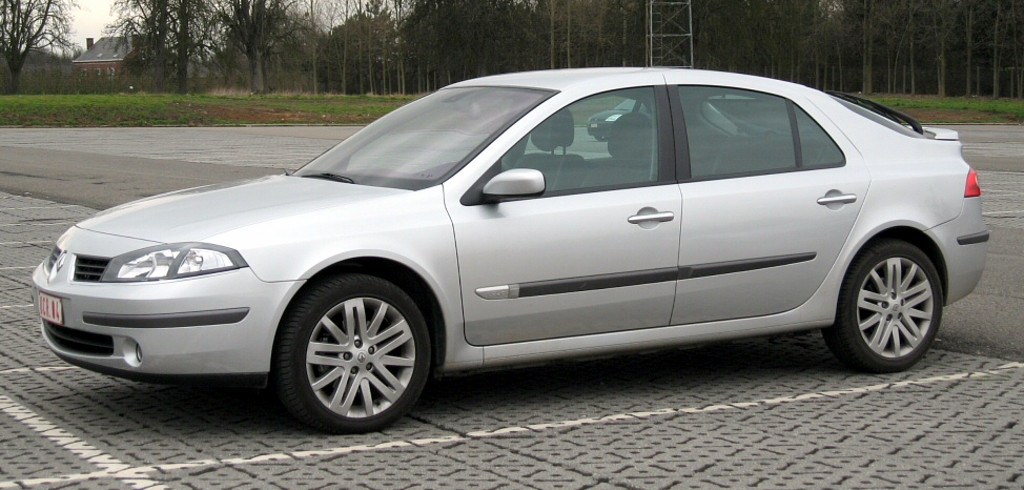 Renault laguna MK2